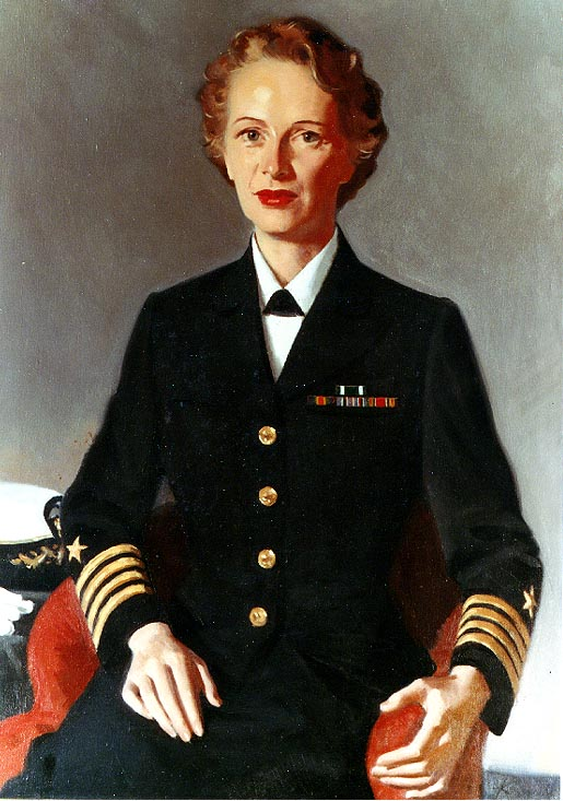 Captain Joy Bright Hancock, US Navy. Courtesy of the Navy Art Collection, Washington, DC. U.S. Naval Historical Center Photograph. Photo #: NH 49392-KN (Color) Online Image: 96KB; 515 x 765 pixels Removed caption read: Photo # NH 49392-KN Capt. Joy Bright Hancock, by David Komuro